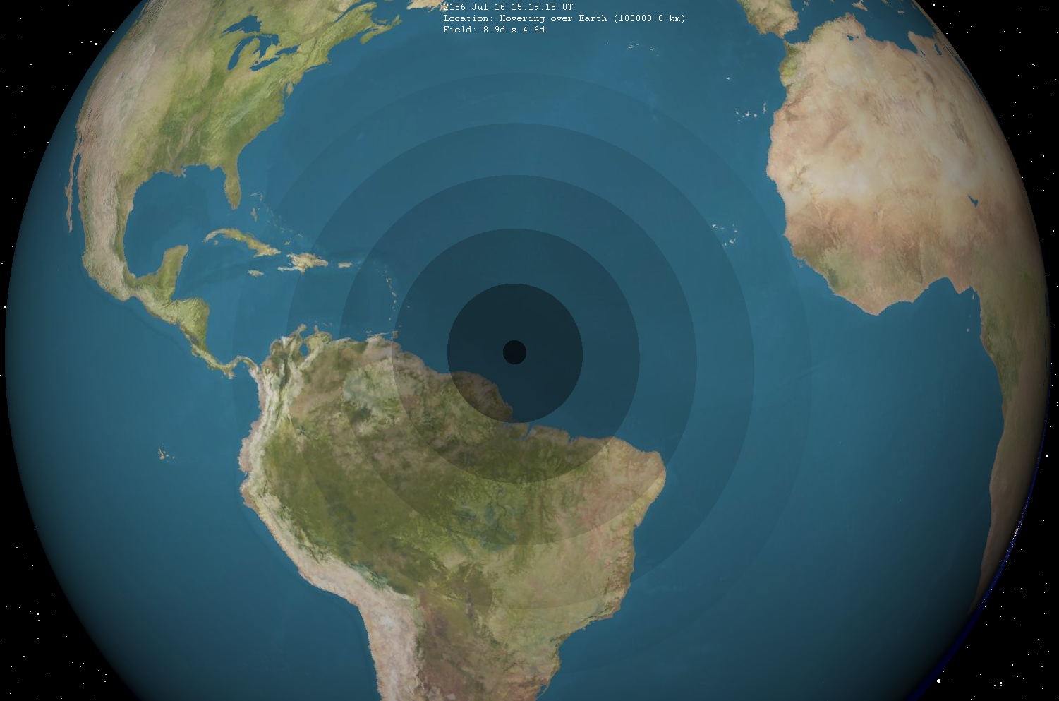 en::Solar_eclipse_of_July_16,_2186 shadow simulation at greatest eclipse. Totality is inner circle. Penumbral shadow divided into 5 gradations.